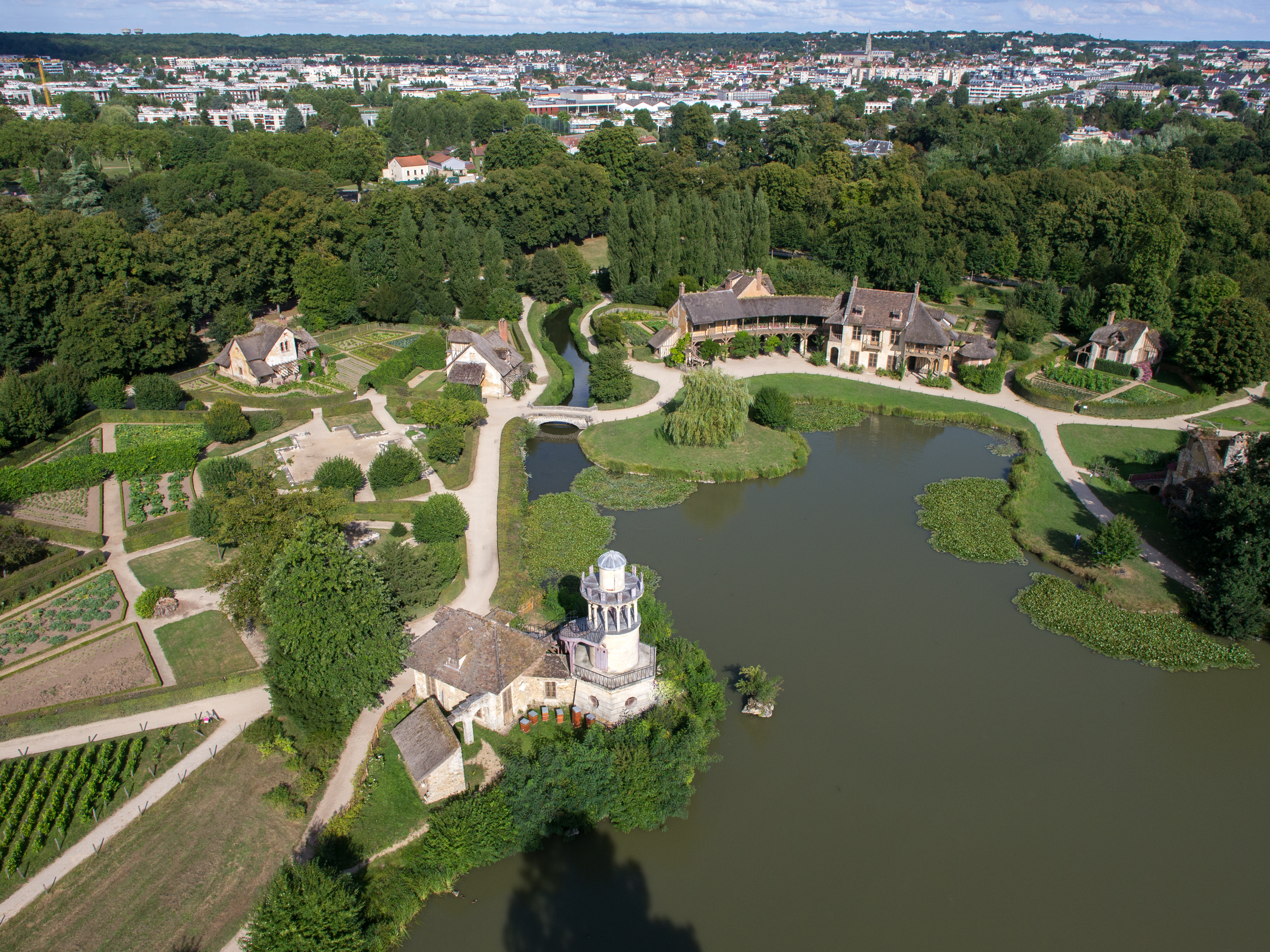 Aerial view of the hameau de la reine, Domain of Versailles, France